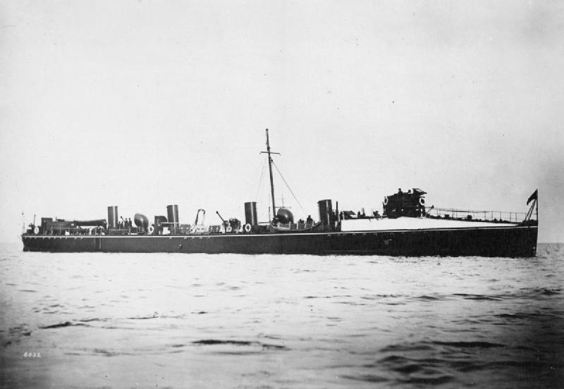 Photograph of British destroyer HMS Banshee.